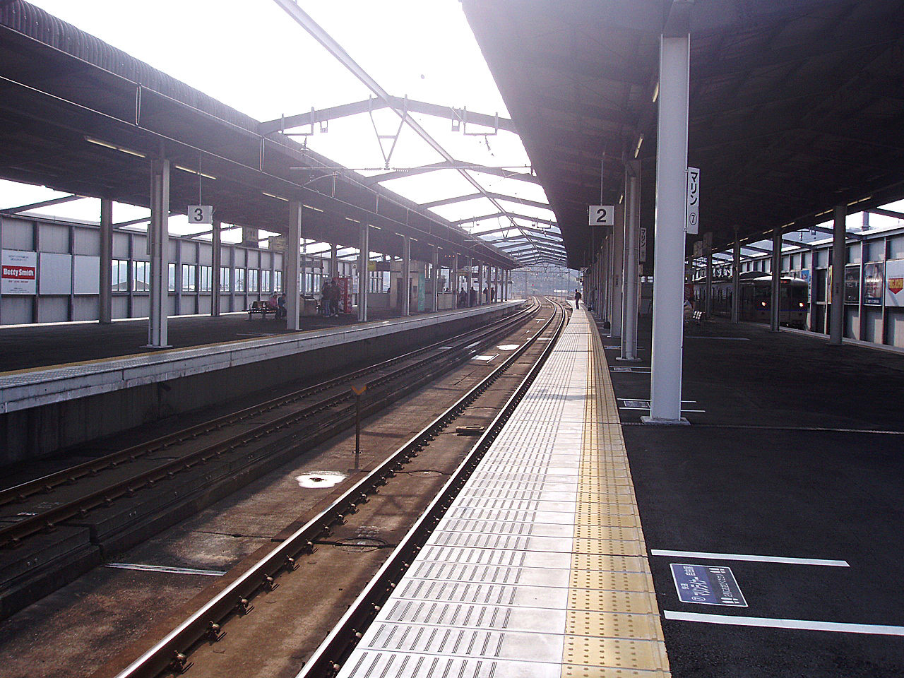 West Japan Railway Honshi-bisan Line（Seto-Ōhashi Line） Kojima Station 西日本旅客鉄道 本四備讃線（瀬戸大橋線） 児島駅 駅ホーム